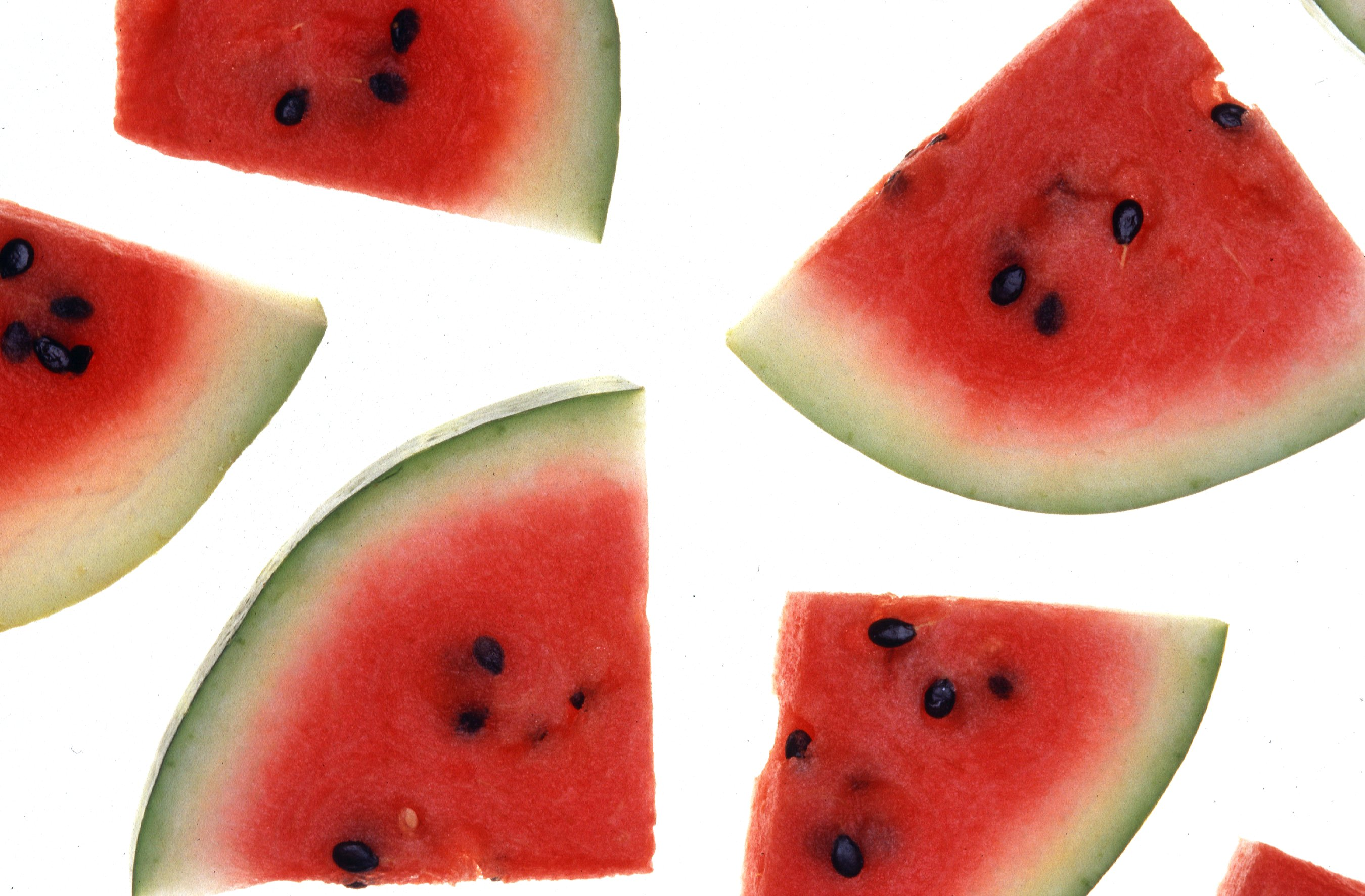 There was a time, a half century ago, when a good watermelon was rarely found in a grocery. Melon lovers had to grow their own, which, sadly, wouldn't keep for long. Then, in the 1940s, along came a USDA plant breeder who set out to bring us a better watermelon. The result was "that gray melon from Charleston," formally called the Charleston Gray. Its oblong shape and hard rind made it easy to stack and ship. Its adaptability meant it could be grown over a wide geographical area. It produced high yields and was resistant to the most serious watermelon diseases, anthracnose and fusarium wilt. Best of all, it tasted terrific! Today, there is hardly a watermelon variety grown that doesn't have a little Charleston Gray in its lineage.